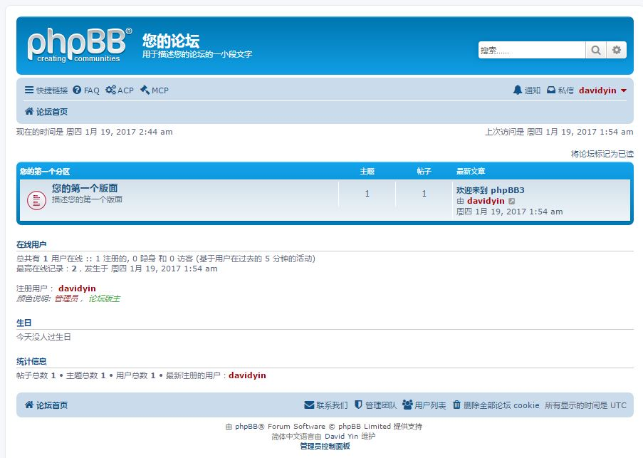 phpBB 3.2.0 default installation with Mandarin Chinese, Simplified Script.